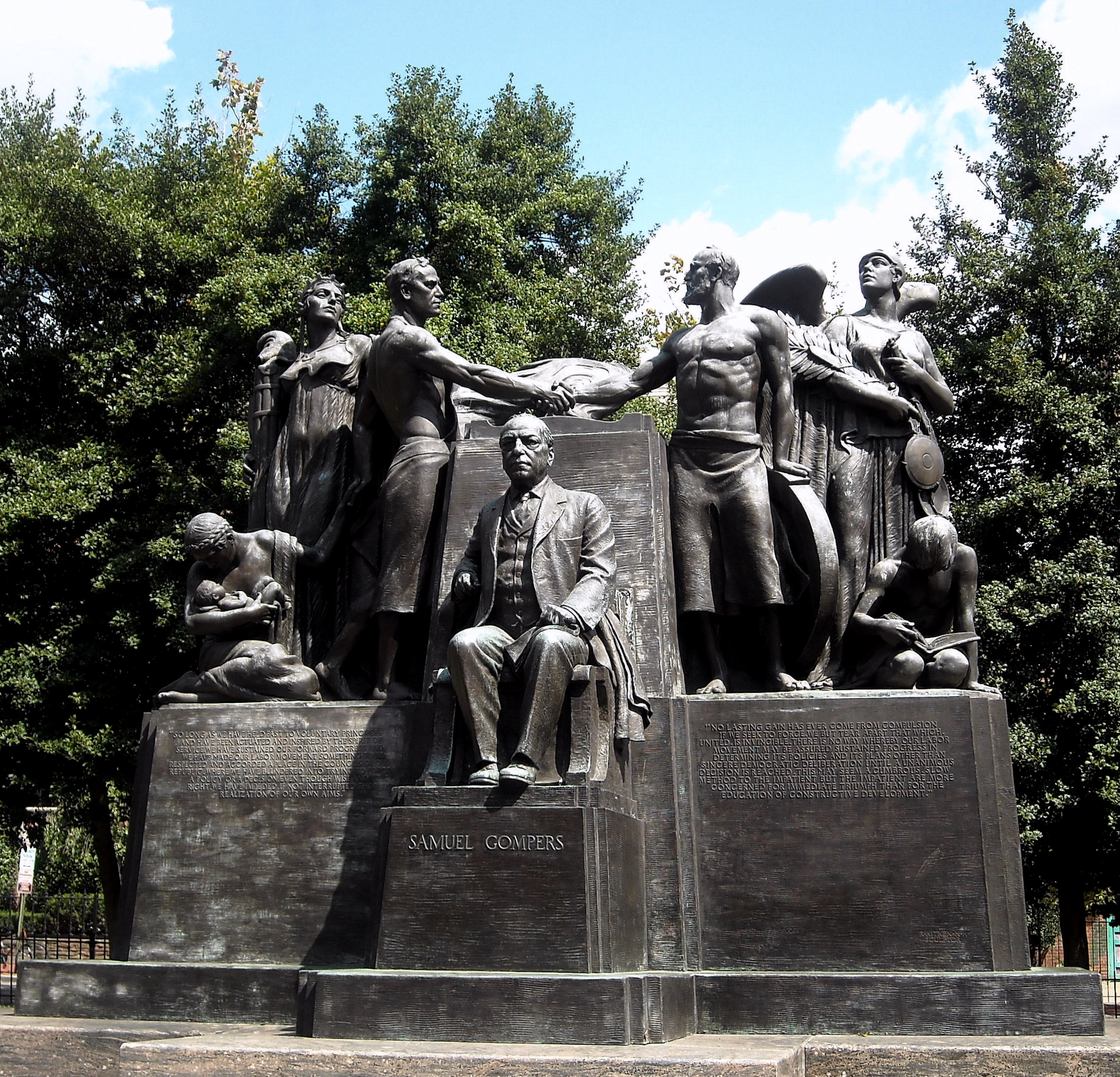 The Samuel Gompers Memorial located at the intersection of 10th Street, L Street, and Massachusetts Avenue, NW in Washington, D.C. Designed by Robert Aitken in 1933, the Beaux Arts sculpture is now owned by the National Park Service and is listed on the National Register of Historic Places.